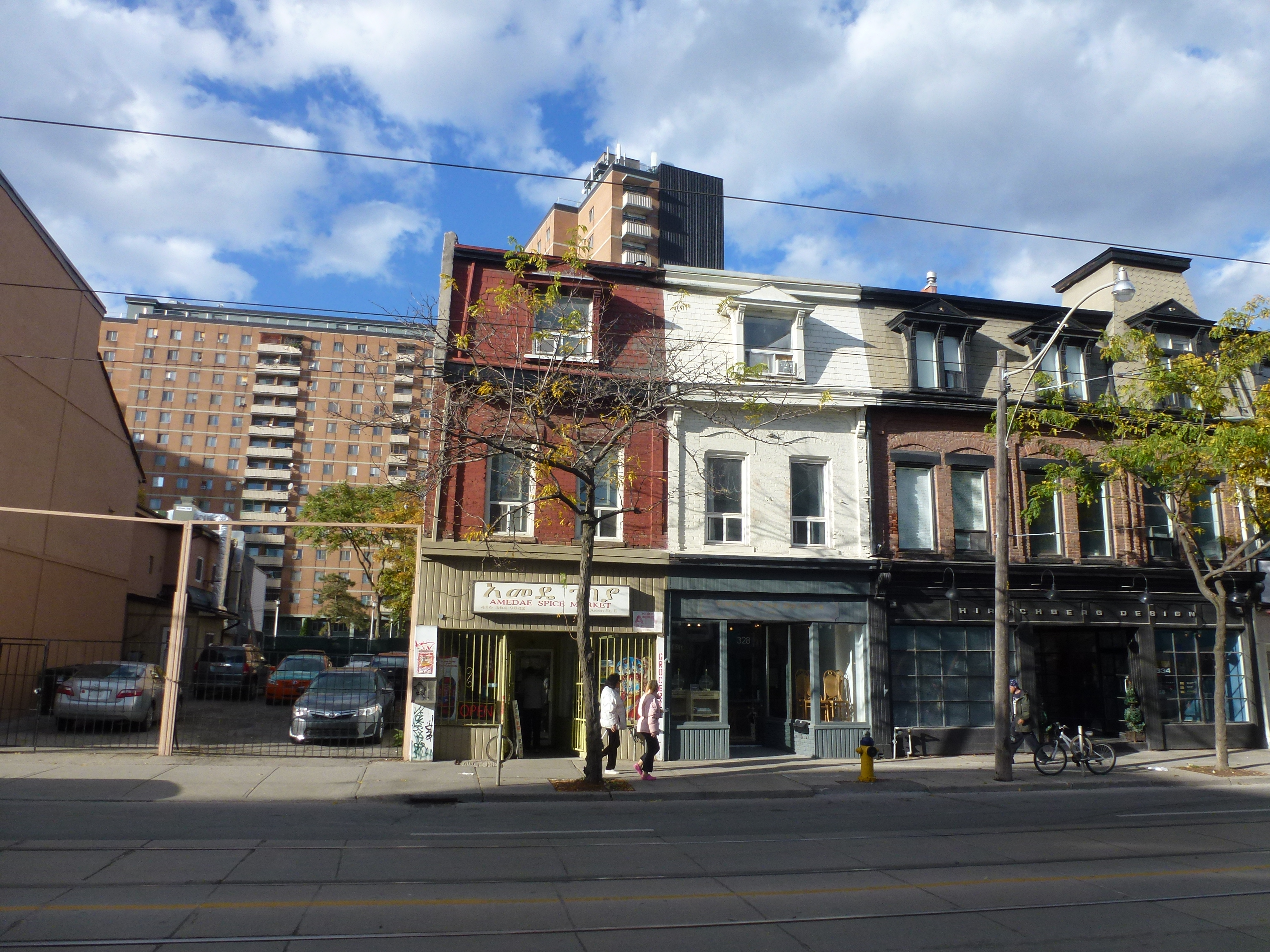 NW corner of Parliament and Queen, 2013 10 23 (5).JPG